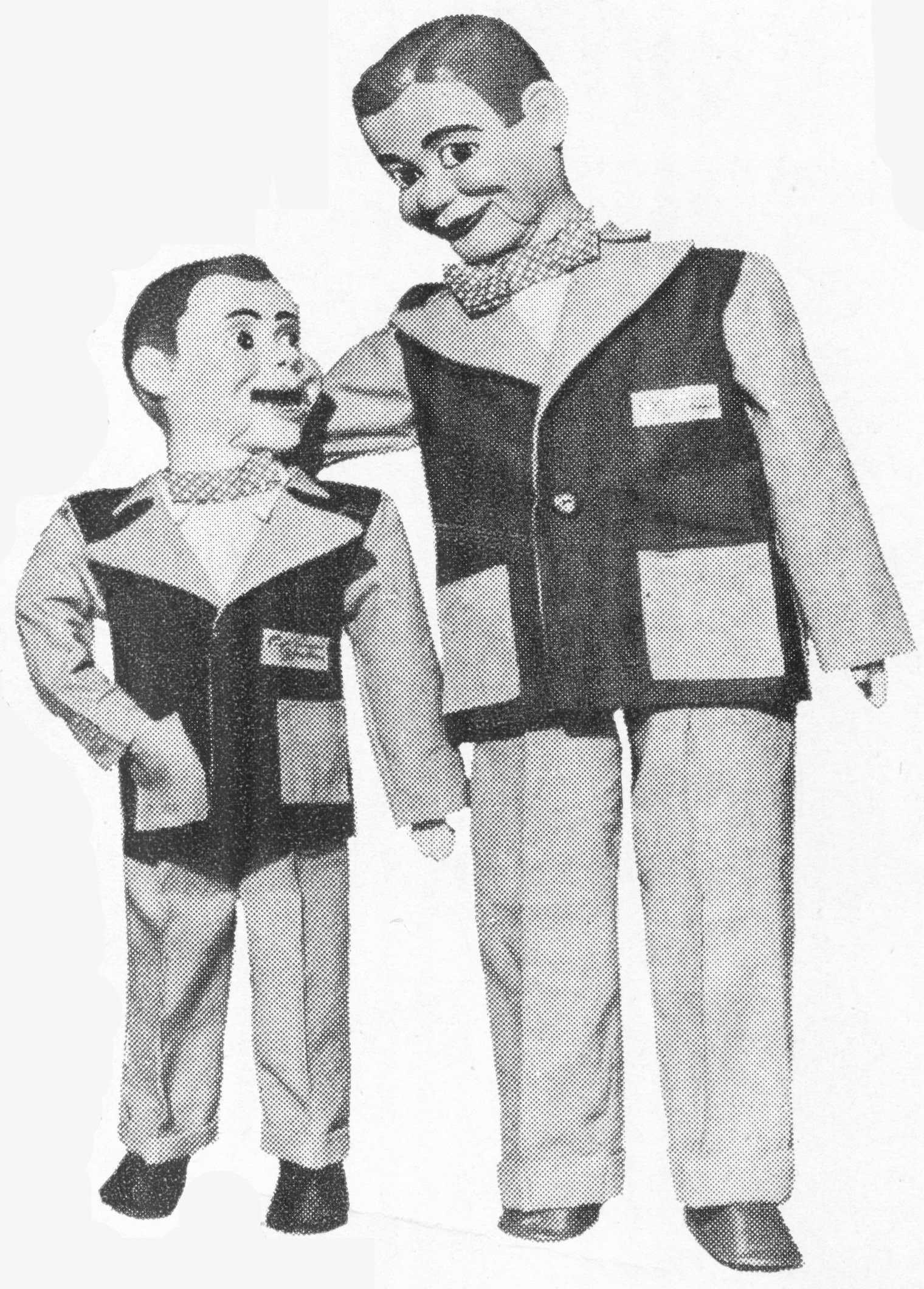 Publicity photo. Cira 1952. On the left is the 24" tall composition Jerry Mahoney toy. On the right is the 32" tall "Semi-pro" Jerry Mahoney toy with hollow body for easy operation. (Composition hands only, head is plastic) This image comes from the archives of Used with permission from the site owner.